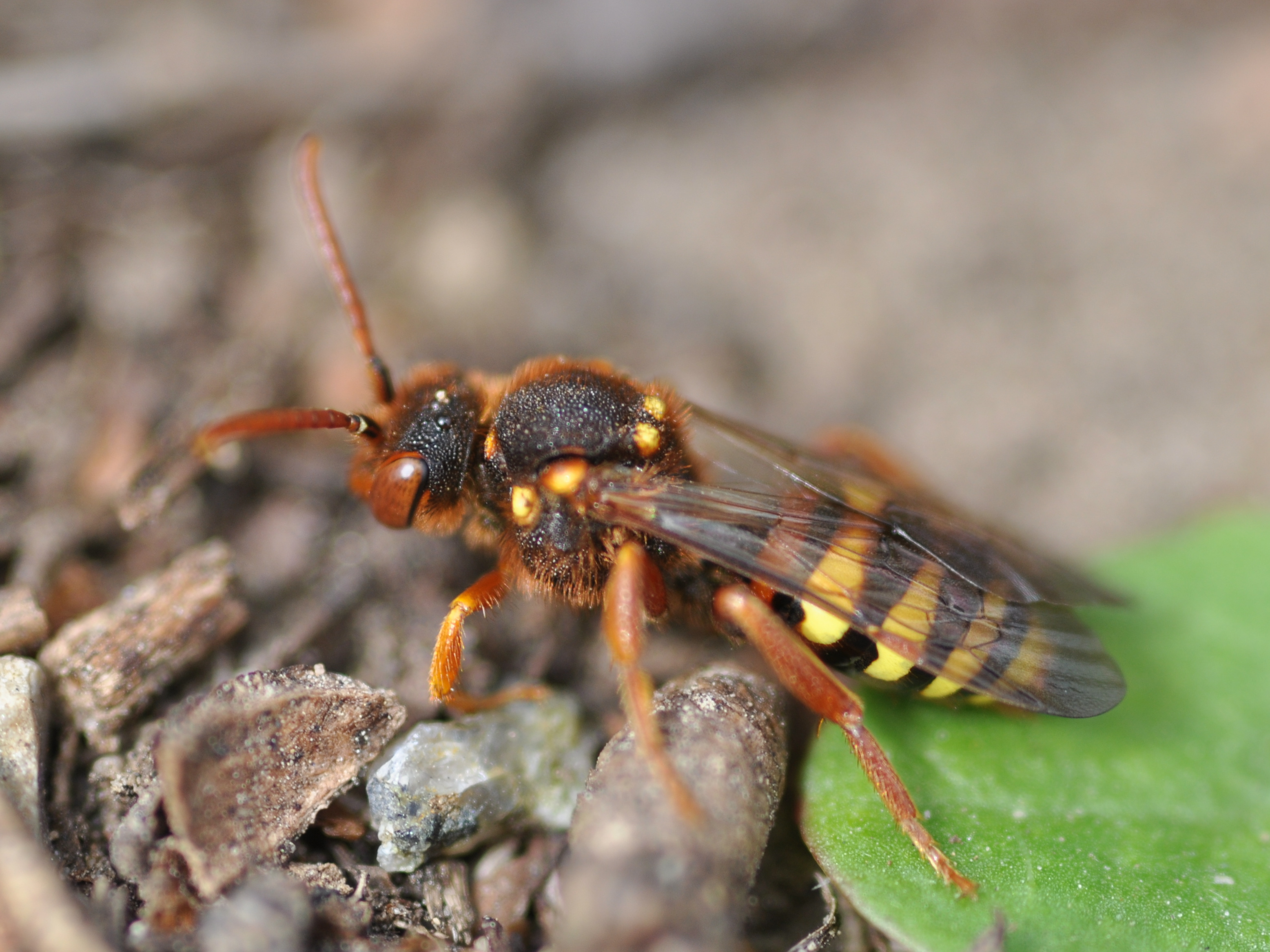 Nomada lathburiana female at an Andrena vaga colony in Bahrenfeld, Hamburg.